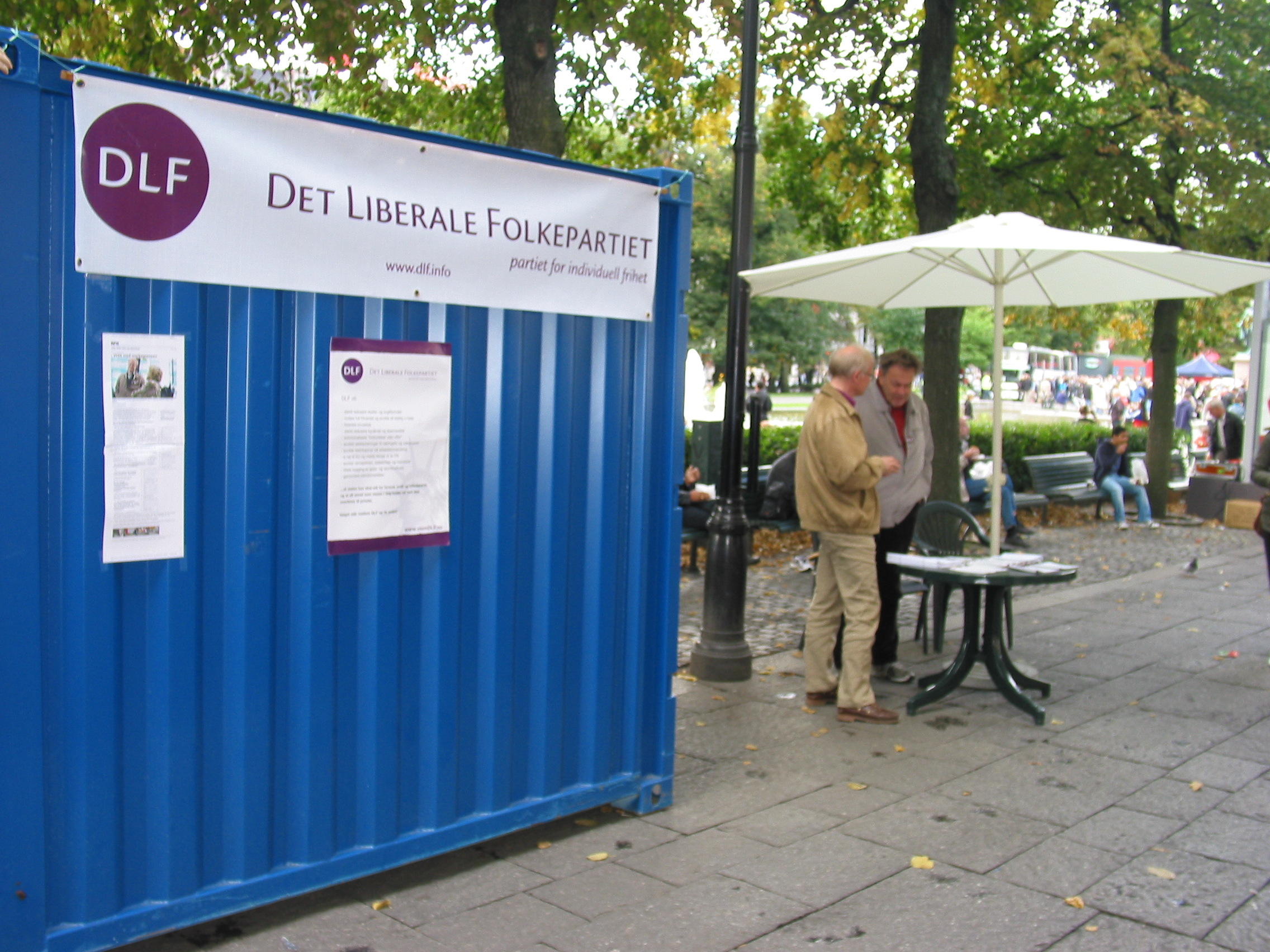 Liberal People's Party (Det Liberale Folkeparti) campaign booth in Karl Johans gate, Oslo ahead of the 2009 Norwegian election.